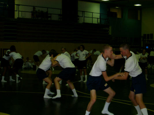 Plebes during Marine Corps Martial Arts instruction during Plebe Summer 2003 at the U.S. Naval Academy